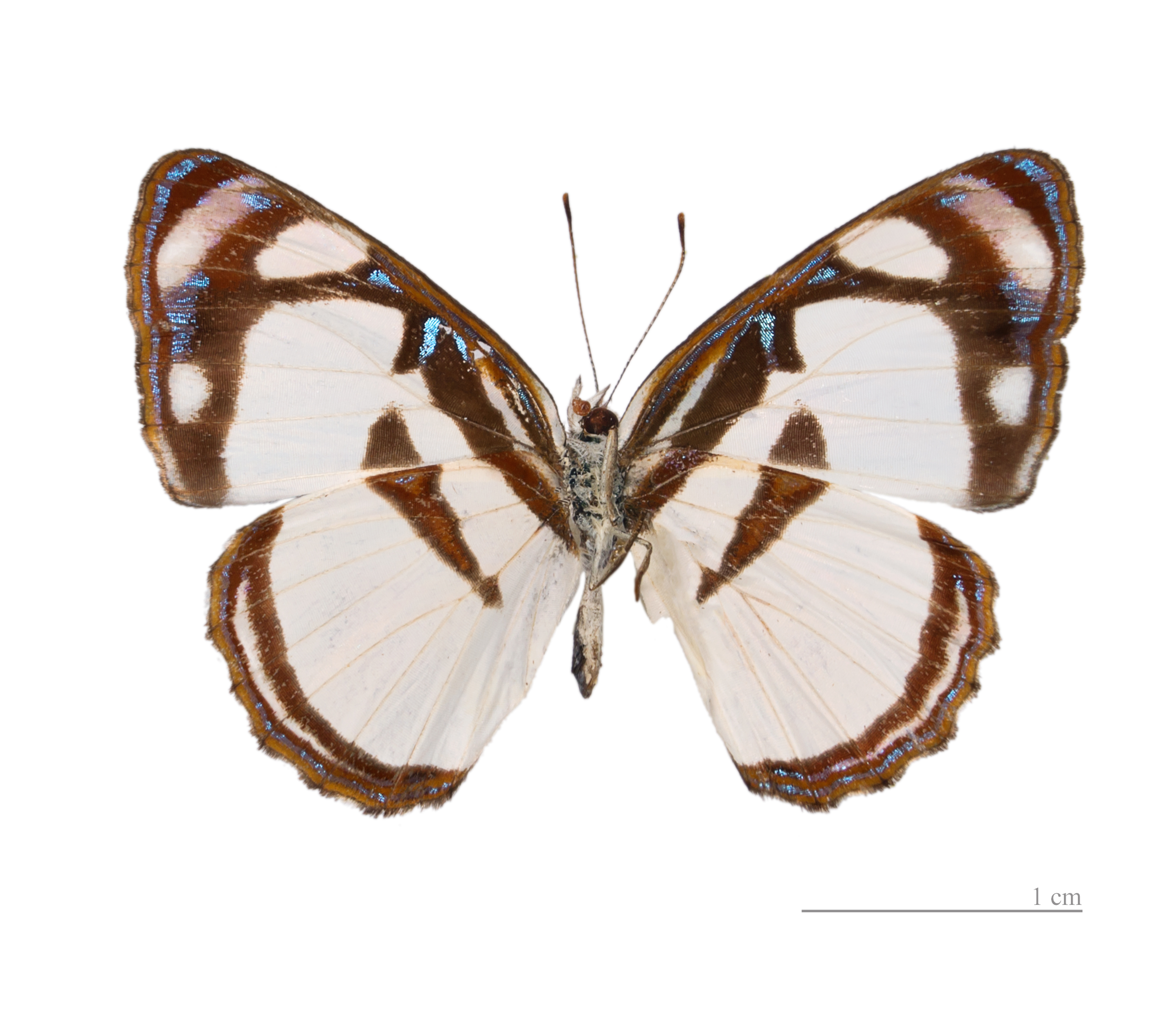 ♂ - △ Ventral side Locality : Kaw road, Pk38, French Guiana.